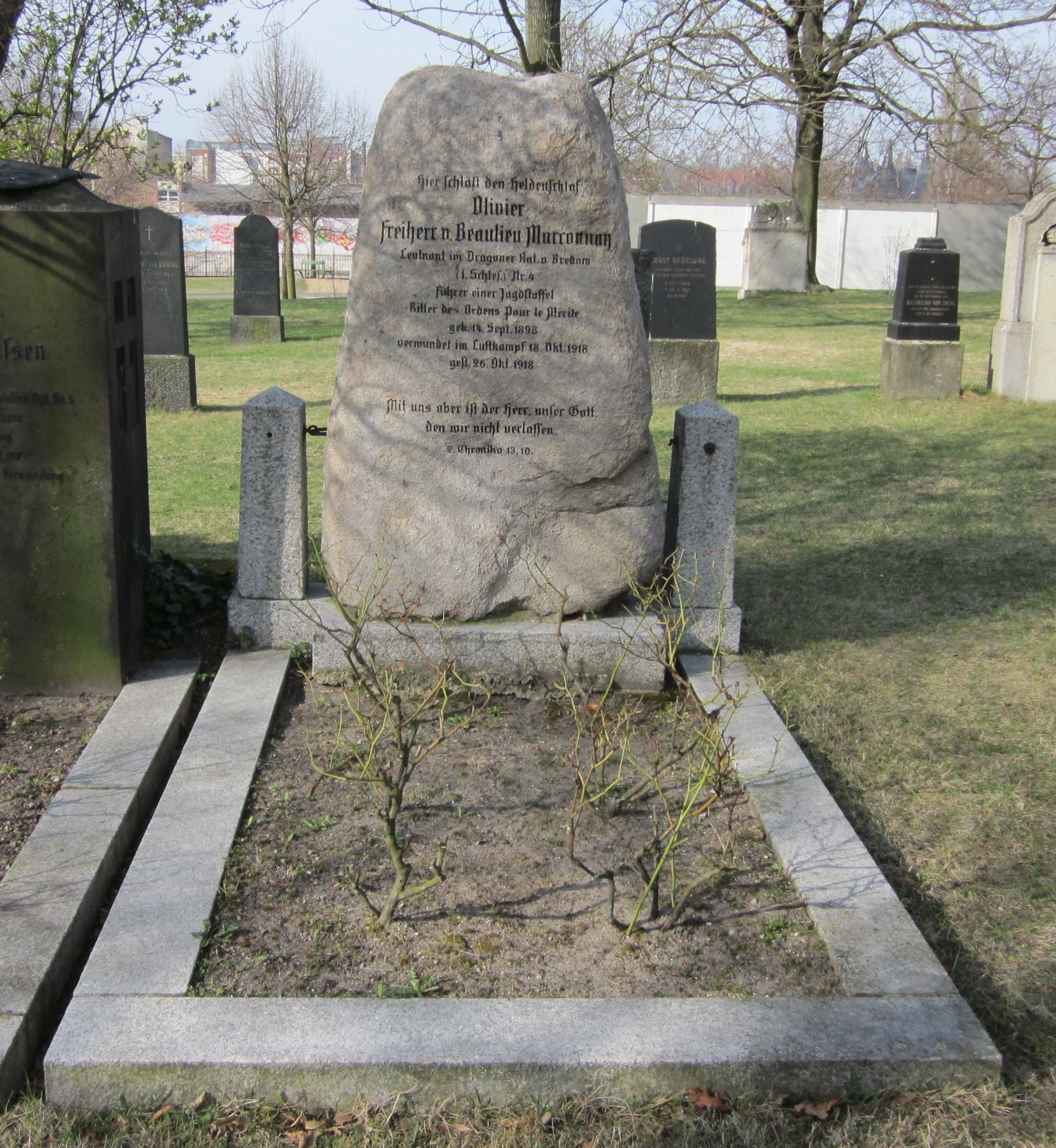 grave of Olivier von Beaulieu Marconnay (1898-1918) on Invalidenfriedhof cemetery in Berlin, Germany